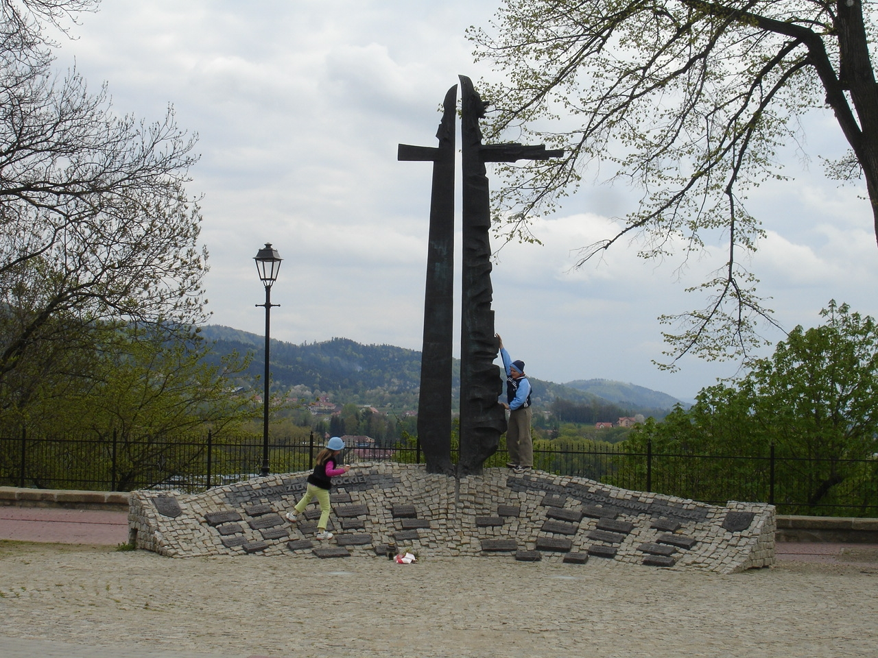 The Sons and Daughters of the Sanok Land - monument